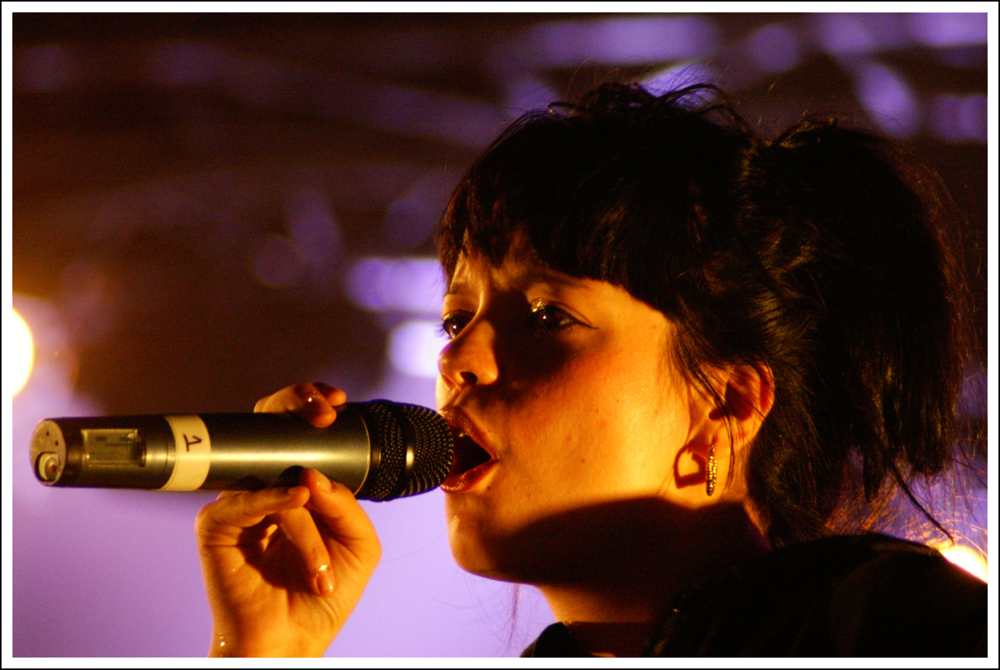 Lily Allen appearing at the Solidays festival in Paris, France